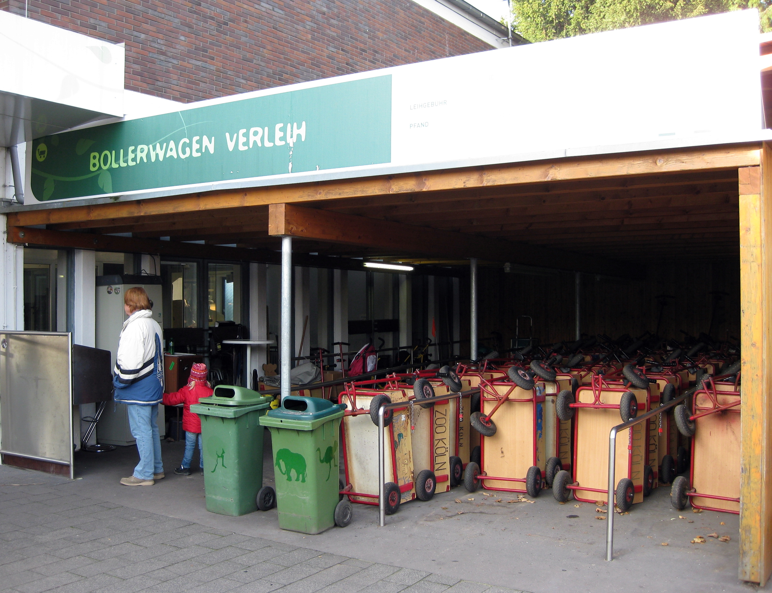 Rental of carts (special version; german="Bollerwagen") in the zoo, Cologne, Germany.